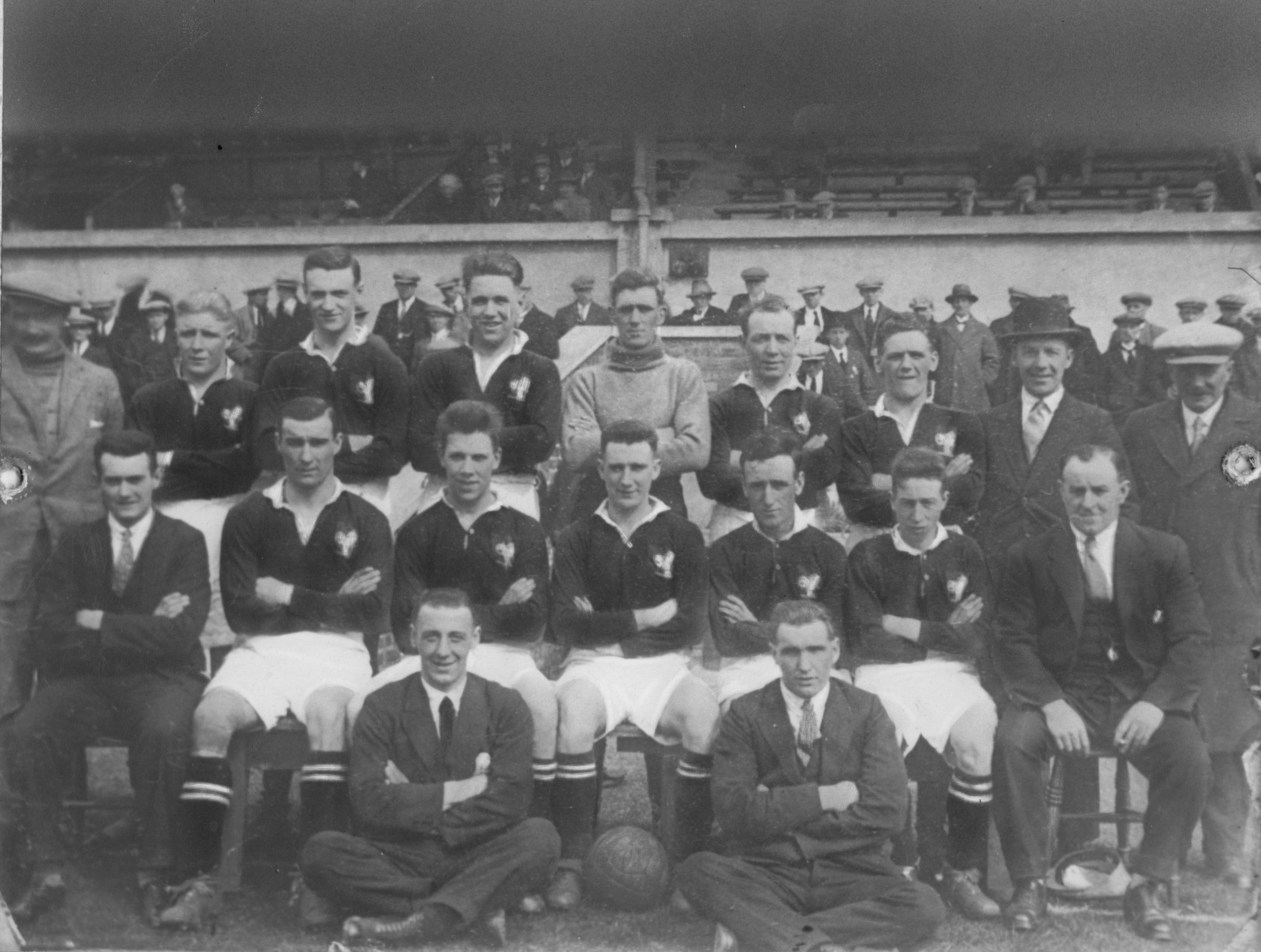 Family photograph of George Reay